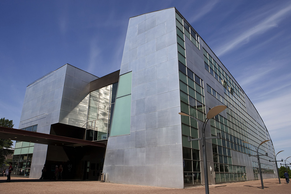 Museum of Contemporary Art Kiasma, Helsinki, Finland. Architect: Steven Holl. June 2007.